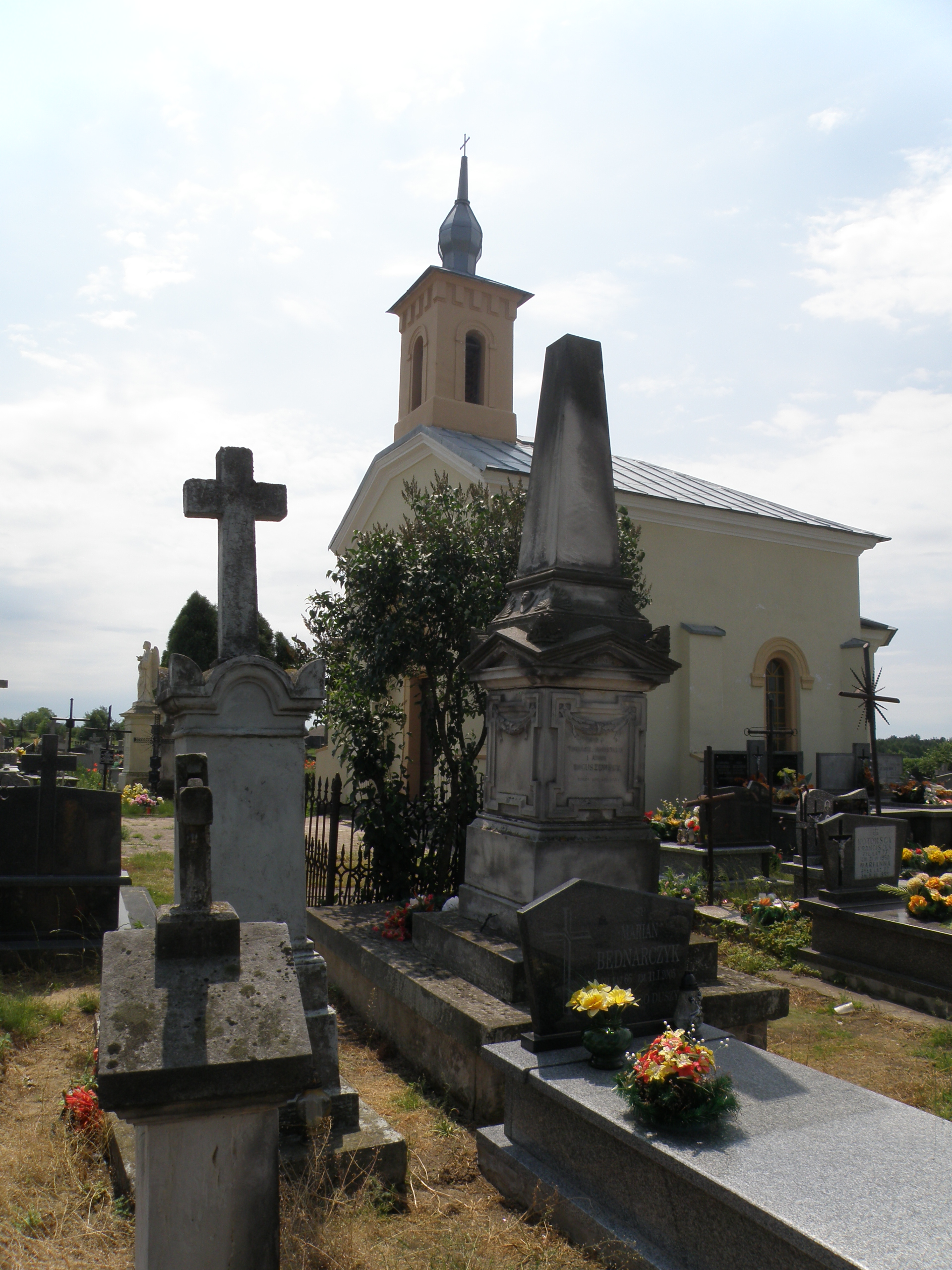 Catholic cemetery in Skaryszew